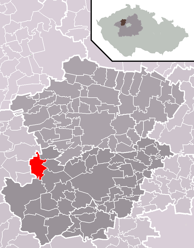 Location of Stochov town within Kladno District and administrative area of Kladno as a Municipality with Extended Competence.